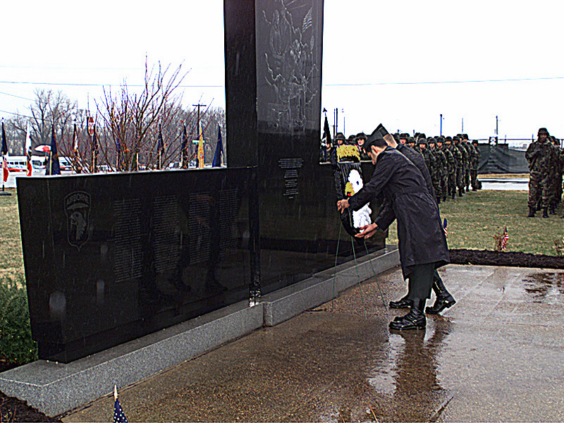 US Army Lieutenant Colonel Sidney McMannis (Obscured) and Command Sergeant Major Raymond Rodriquez (Foreground) place a wreath on the memorial for Task Force 3rd Battalion, 502nd Infantry Regiment, 2nd Brigade, 101st Airborne Division Soldiers. This took place during the Division Gander Memorial Ceremony on December 12th, 1999, at Fort Campbell, Kentucky. The Memorial commemorates the 248 soldiers lost in a plane crash at Gander, Newfoundland, Canada.